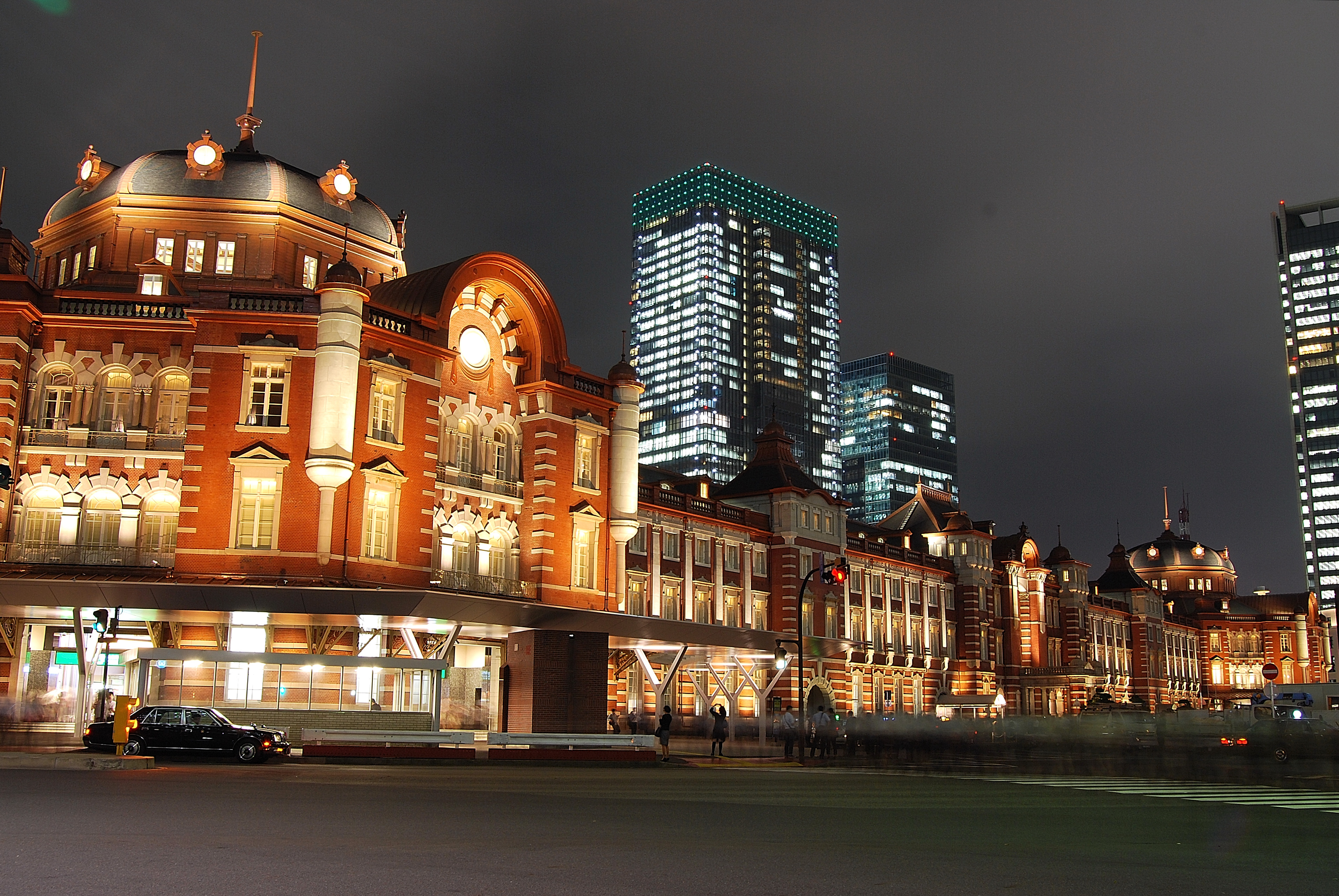 The front of Tokyo Station lit up at night, taken from the Marunouchi Oazo side